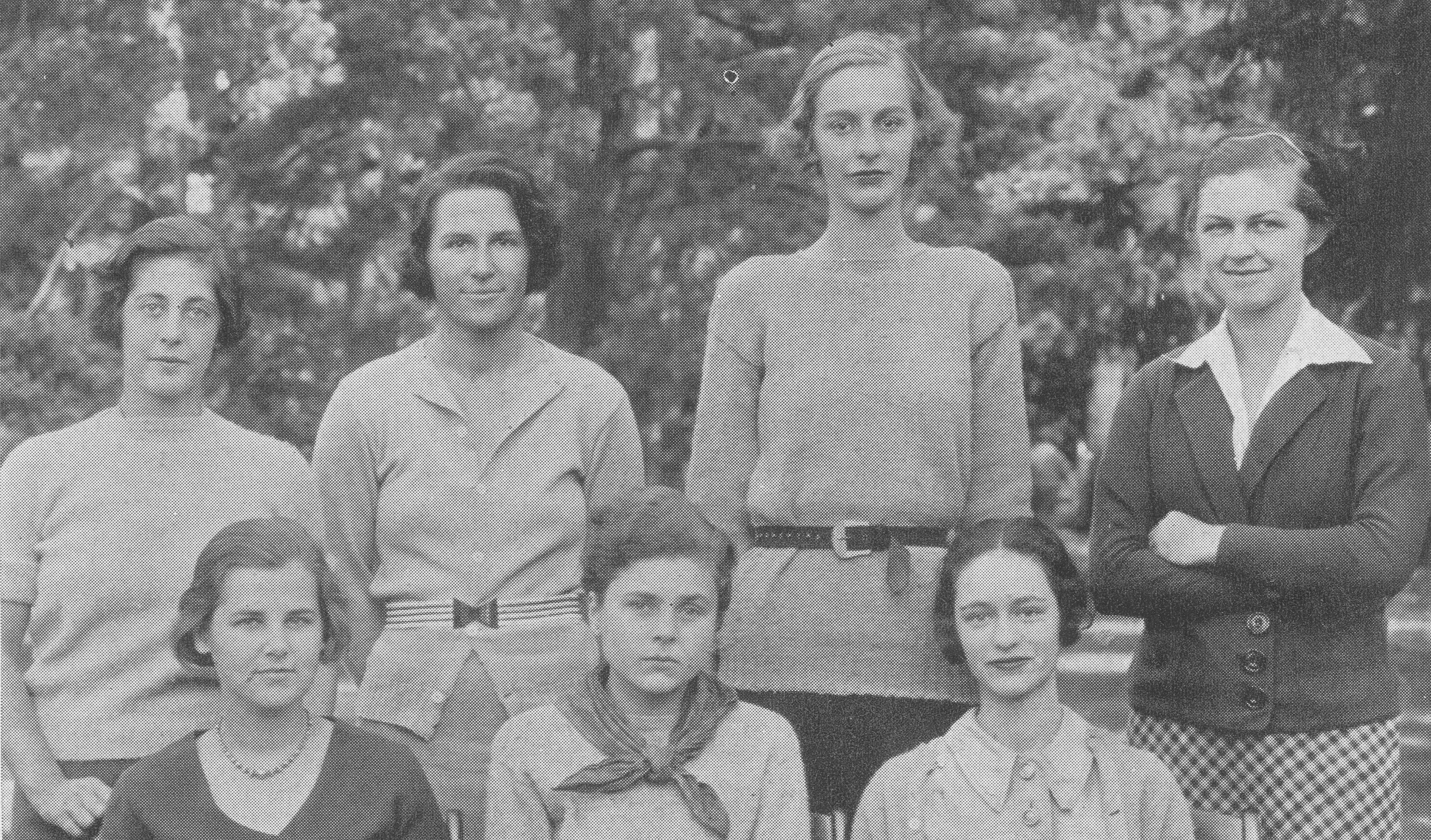 The board of the Vassarion, Vassar College's yearbook, as of 1934. Identified from upper left to right, beginning on the top row: Jean Friedberg (snapshot editor), Eleanor Dunning (business manager), Frederica Fronheiser (assistant advertising manager), Rhonda Wheeler (circulation manager), Harriet Behrend (advertising manager [probably; may also be Gretchen Keene, copy editor]), Elizabeth Bishop (editor-in-chief), and Margaret Miller (typographer).